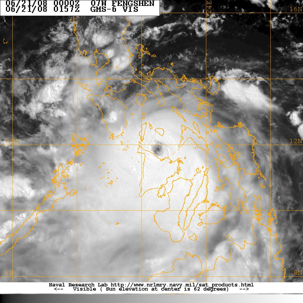 Visible image of Typhoon Fengshen (Frank) on June 21, 2008. Typhoon Fengshen packs winds of 110mph (1-min) and has formed an eye while passing through the Philippines.